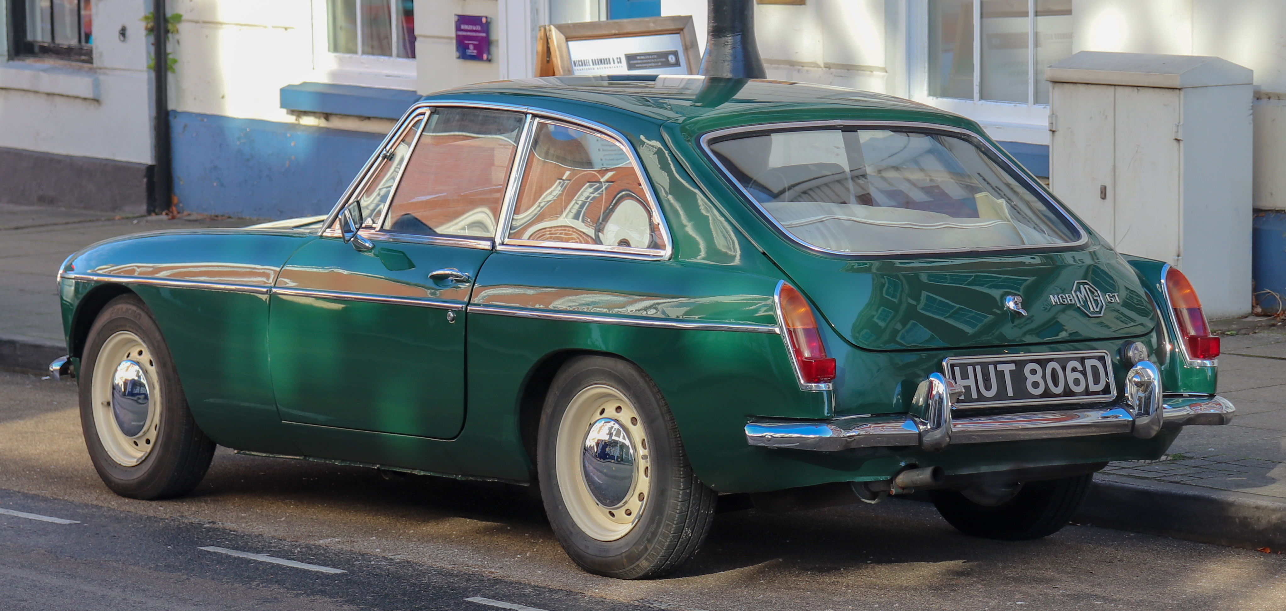 1966 MG B GT 1.8 Rear Taken in Warwick